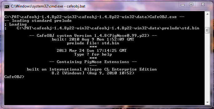 Screenshot of CafeOBJ system version 1.4.8 running on Windows 7